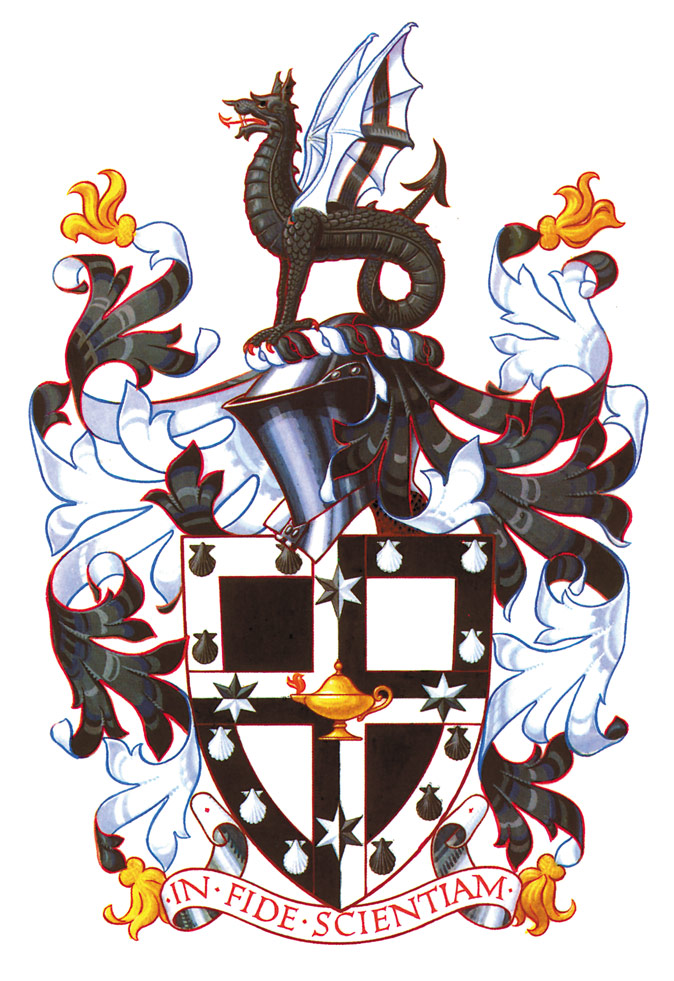 Crest of Newington College, created Circa 1863. Not trademarked according to start IP Australia